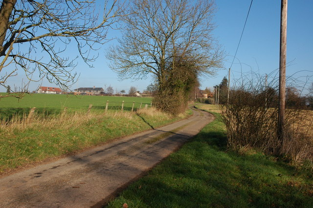 Lane to the small hamlet of Aulden